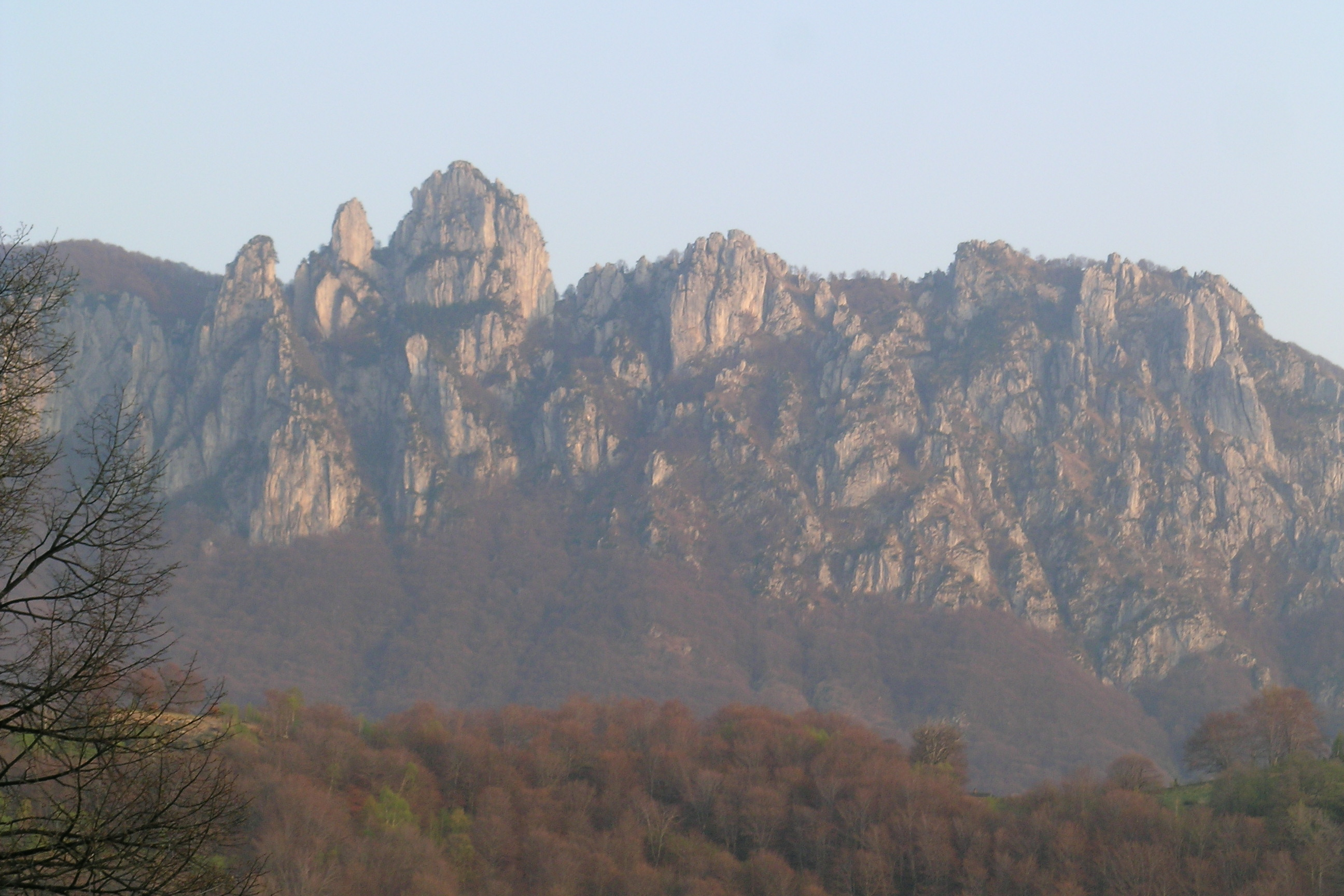 Denti della Vecchia (the teeth of the old woman) at Sonvico, Ticino, Switzerland